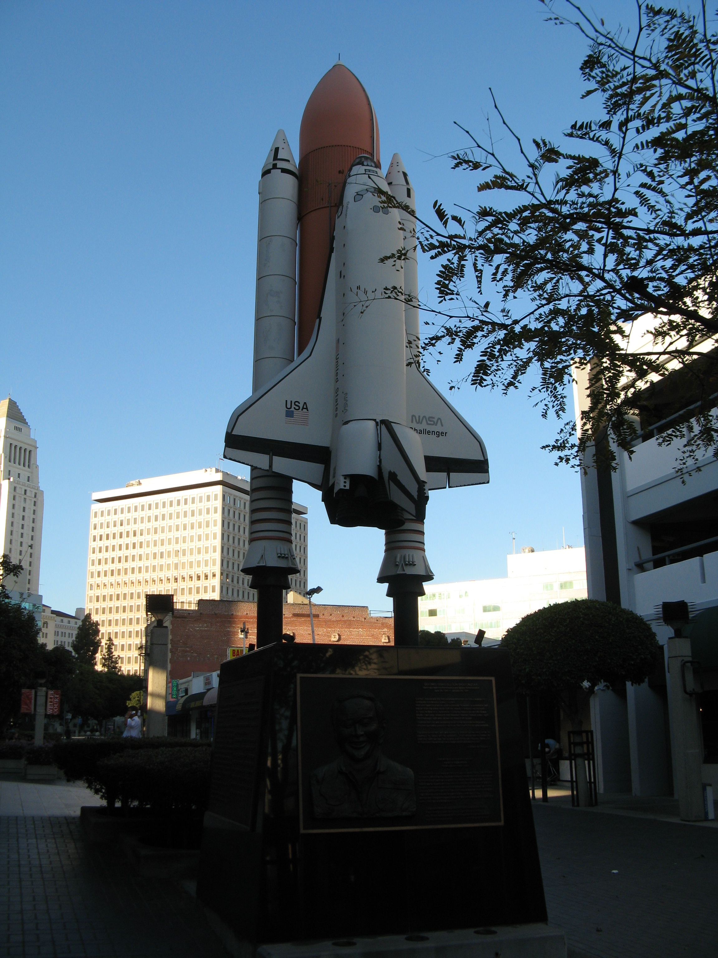 The Little Tokyo, Los Angeles, California memorial to the Space Shuttle Challenger.